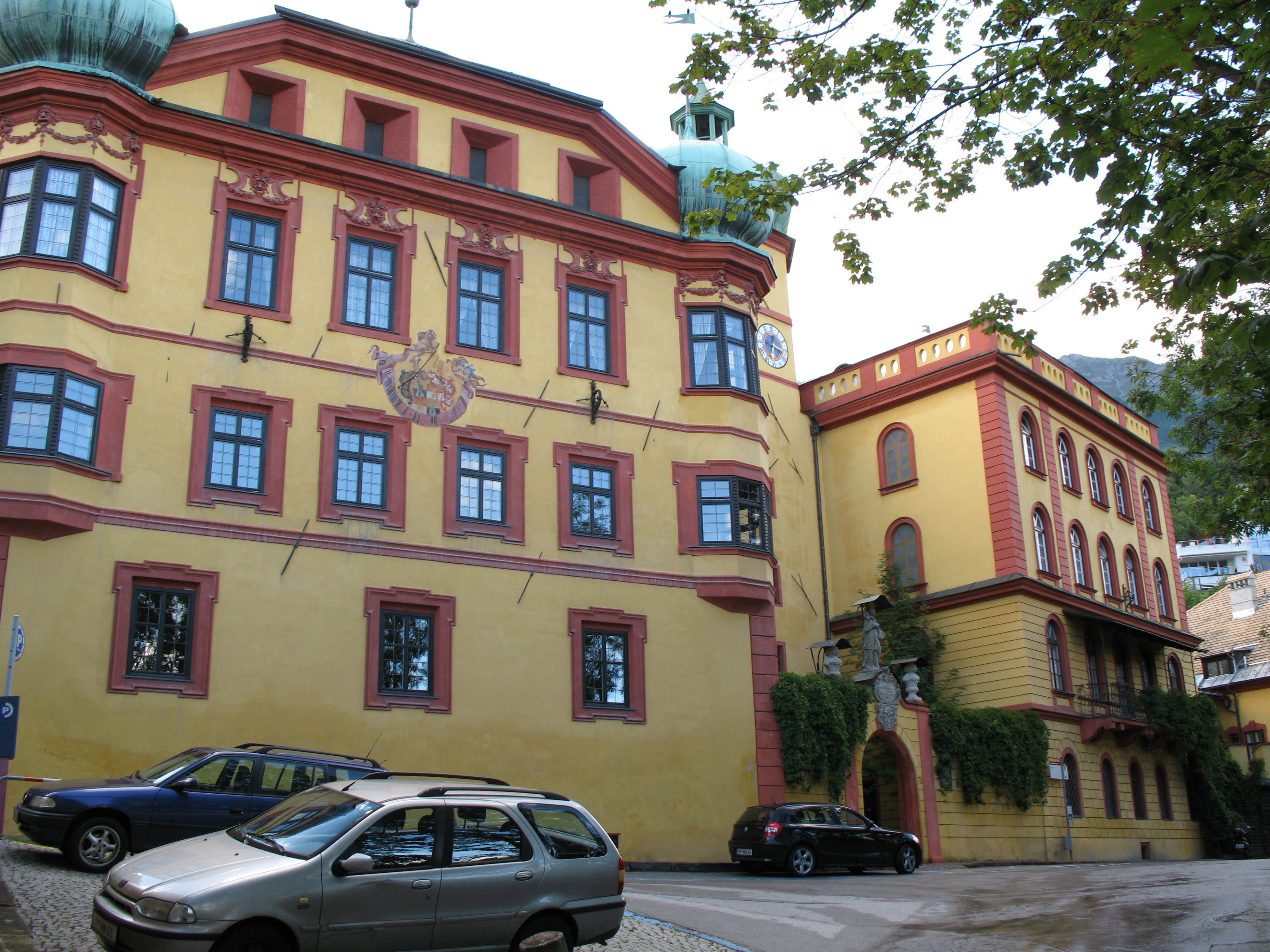 Büchsenhausen Palace, Innsbruck, Austria Object location47° 16′ 35″ N, 11° 23′ 37.15″ E